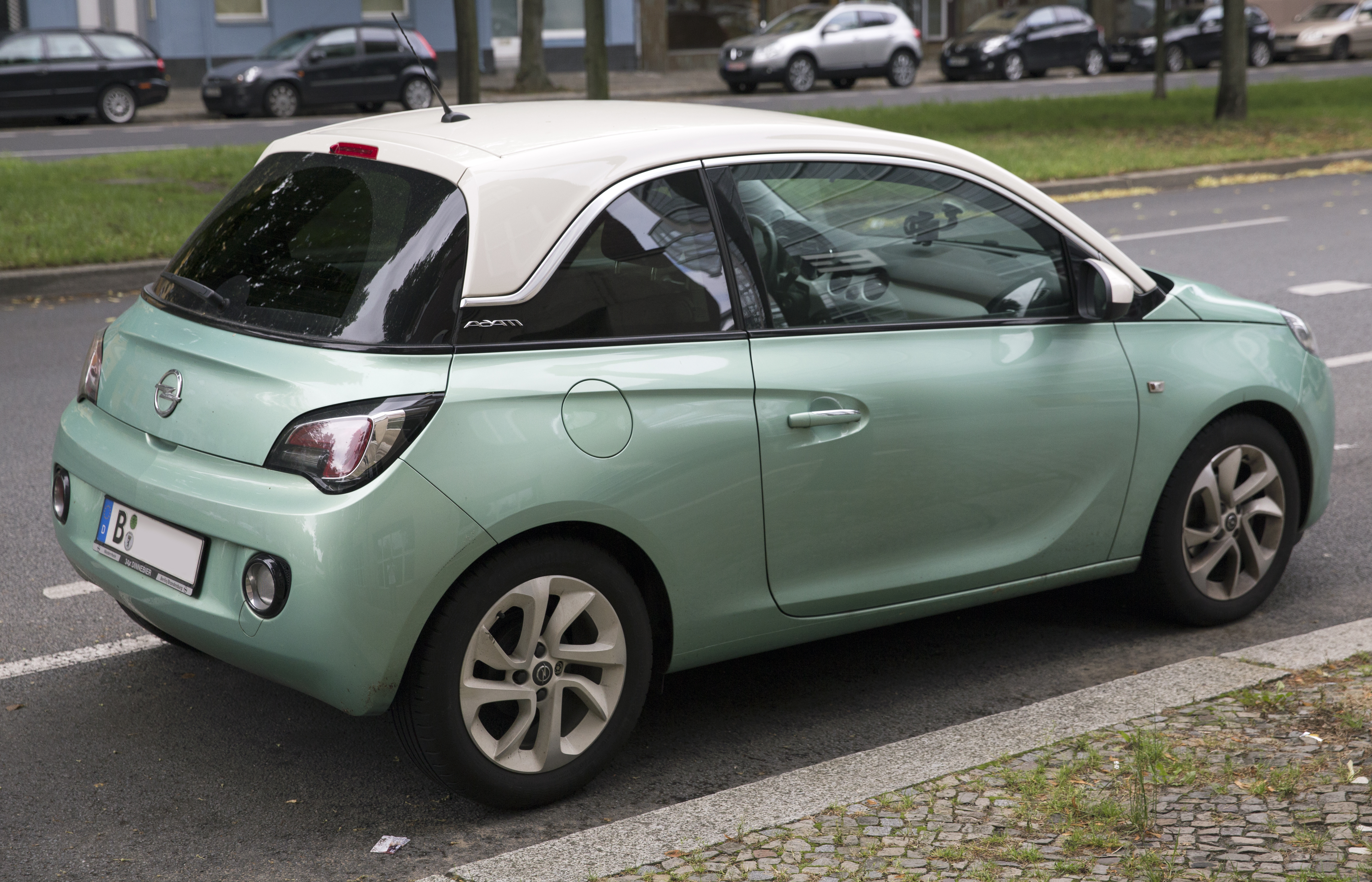 A 2016 Opel Adam in Berlin.